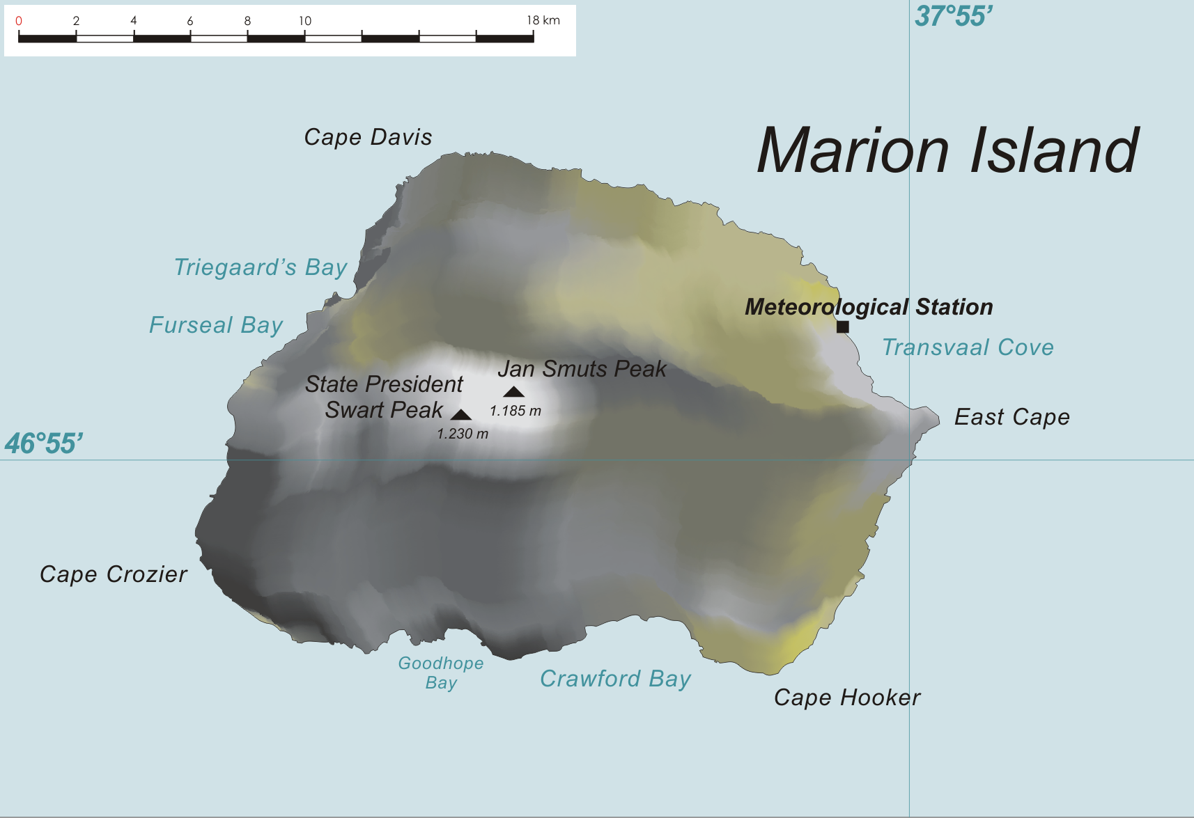 Map of Marion Island, Prince Edward Islands, in the Southern Indian Ocean